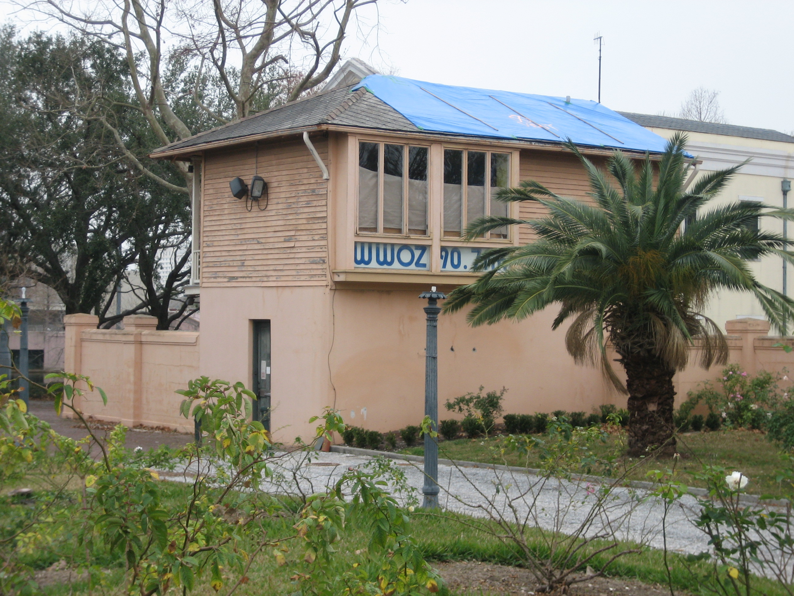 New Orleans after Hurricane Katrina: Studio of community radio station WWOZ in Armstrong Park. Blue tarp over damaged roof. (This was WWOZ's production and broadcast studio building from the mid 1980s until the Saturday before Katrina in August of 2005. In December of 2005 the station resumed broadcasting in the city from temporary studios in the French Quarter.